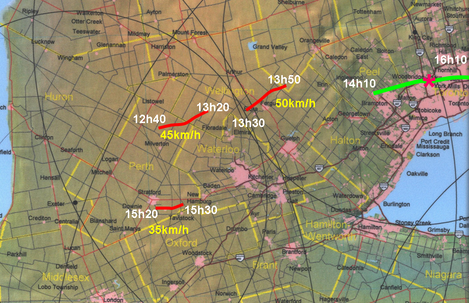 Map of Southern Ontario, between Lake Huron and Lake Ontario, showing in red the path of the tornadoes and in green the downpour over Toronto on August 19th, 2005. The times are in local time, Eastern Daylight Saving, which is GMT minus 4 hours. In yellow is the speed of motion of the cells that produced them.